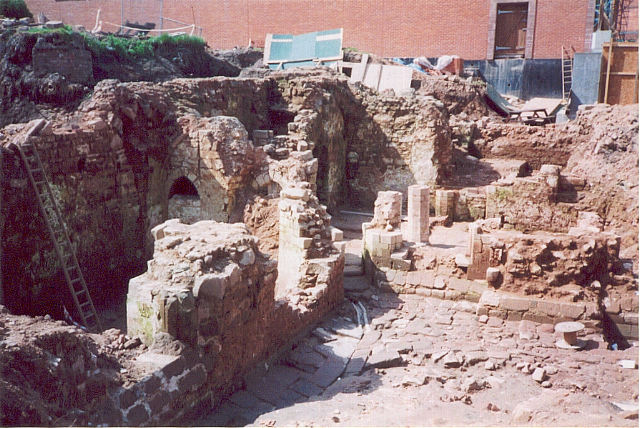 Priory undercroft excavations, 2001 View from Hill Top of the excavation of the undercroft of the 12th century cathedral priory of St Mary executed as part of the Phoenix project. Some of the area has been re-buried but part of the structure visible here is now on display under cover.